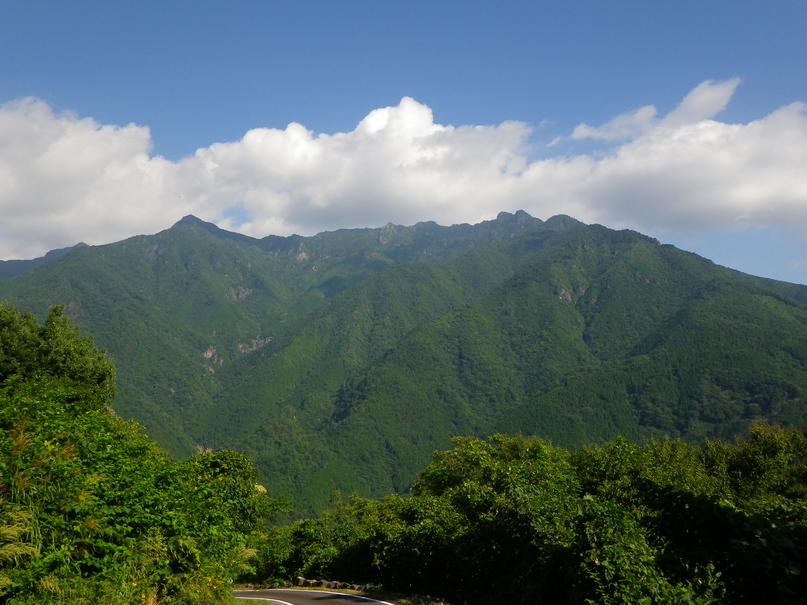 Mount Futatsu (Futatsu-dake) as seen from the SSE.